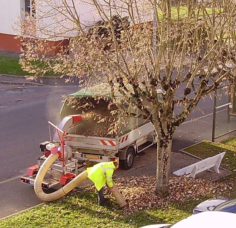 Autumn cleaning of leaves using a vacuum machine, drawn by a van, in France.